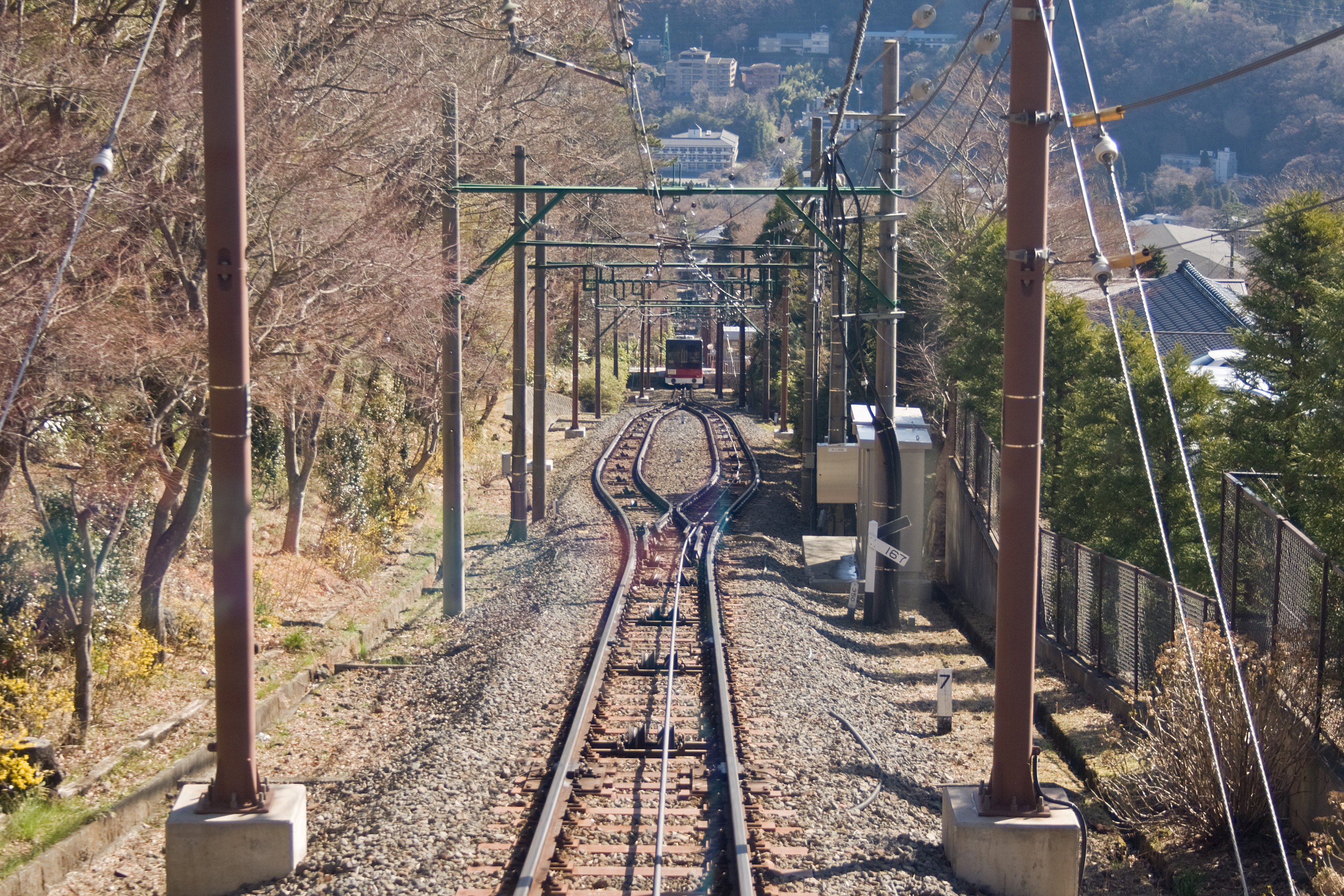 Hakone Tozan Cable Line